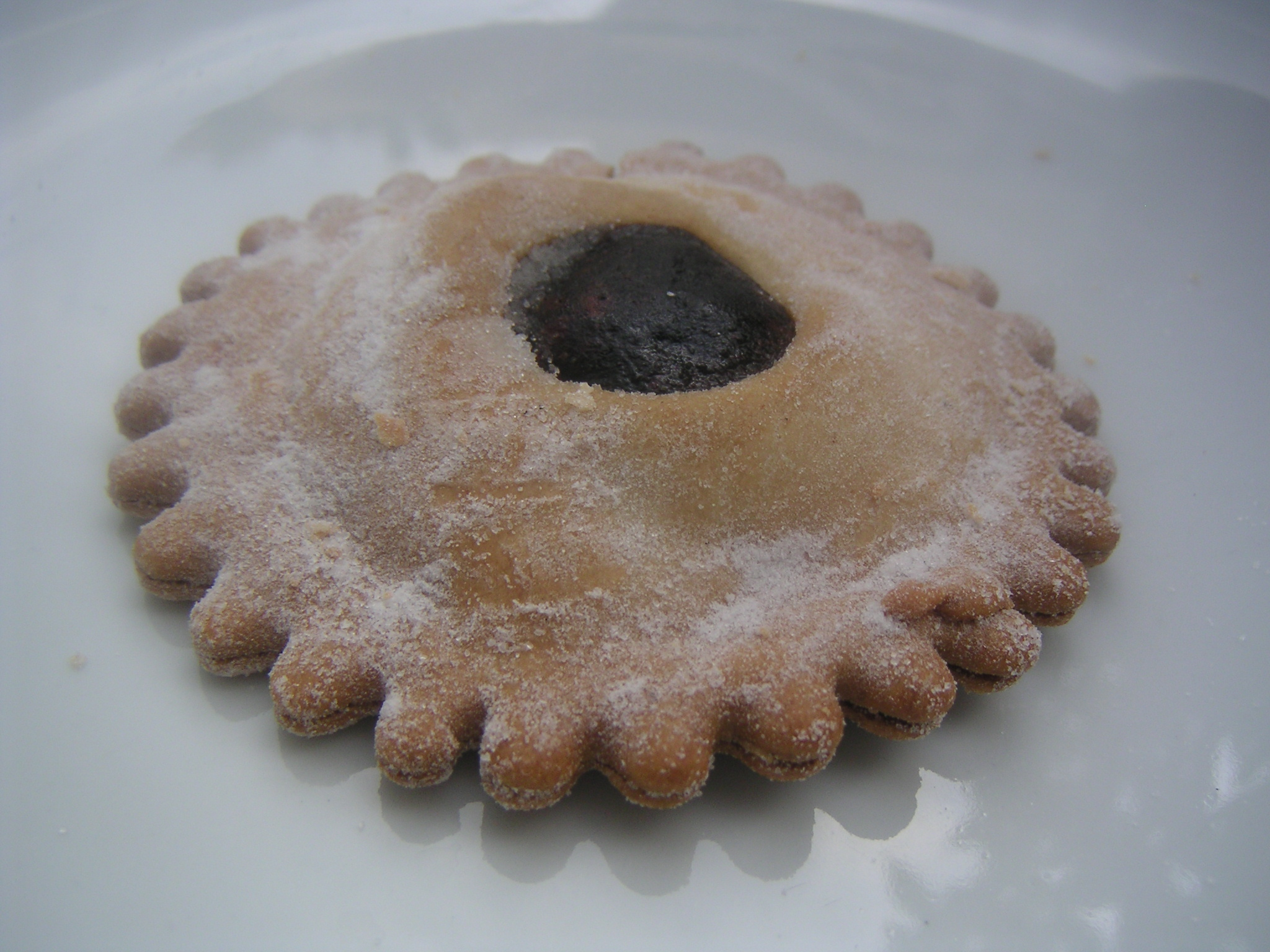 A 'crespell' from Minorca.